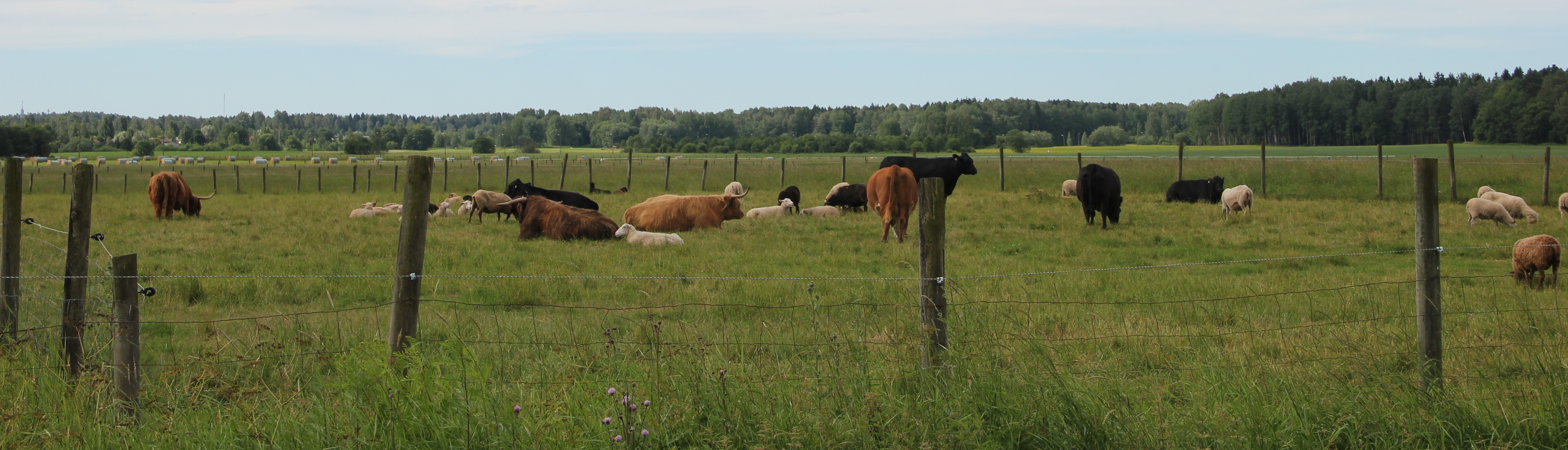 Domestic animals in Haltiala farm, Vantaa, Finland. Finnsheep and Aberdeen Angus (black), Hereford, Highland cattle (long fur).